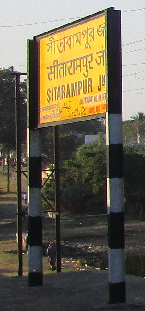 Sitarampur railway station nameplate